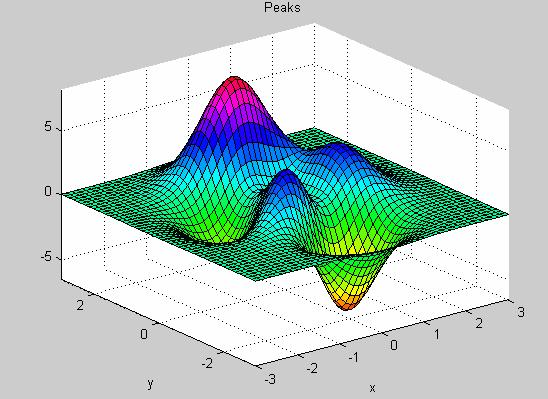 3-D mesh graph.